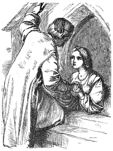 From 'Andersens Sproken en vertellingen' by Hans Christian Andersen, Titia van der Tuuk (ed.) and Simon Jacob Andriessen (trans.). Gebroeders E. & M. Cohen, Nijmegen - Arnhem. Illustrated by Alfred Walter Bayes (1832-1909) and engraved by the Dalziel Brothers (Edward Daziel, 1817-1905; George Daziel, 1815-1902).